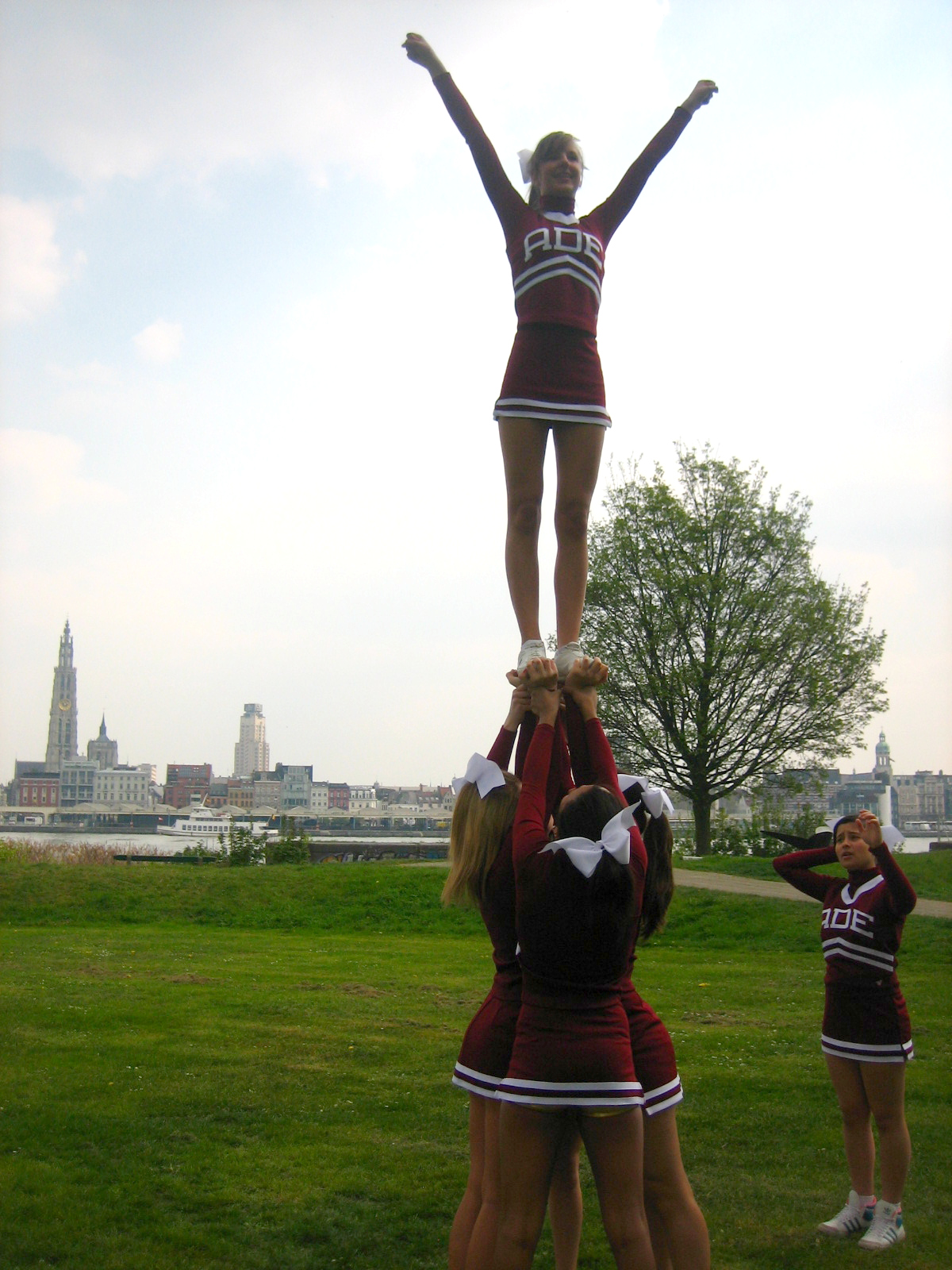 ADE Cheerleaders performing an Allgirl Cupie